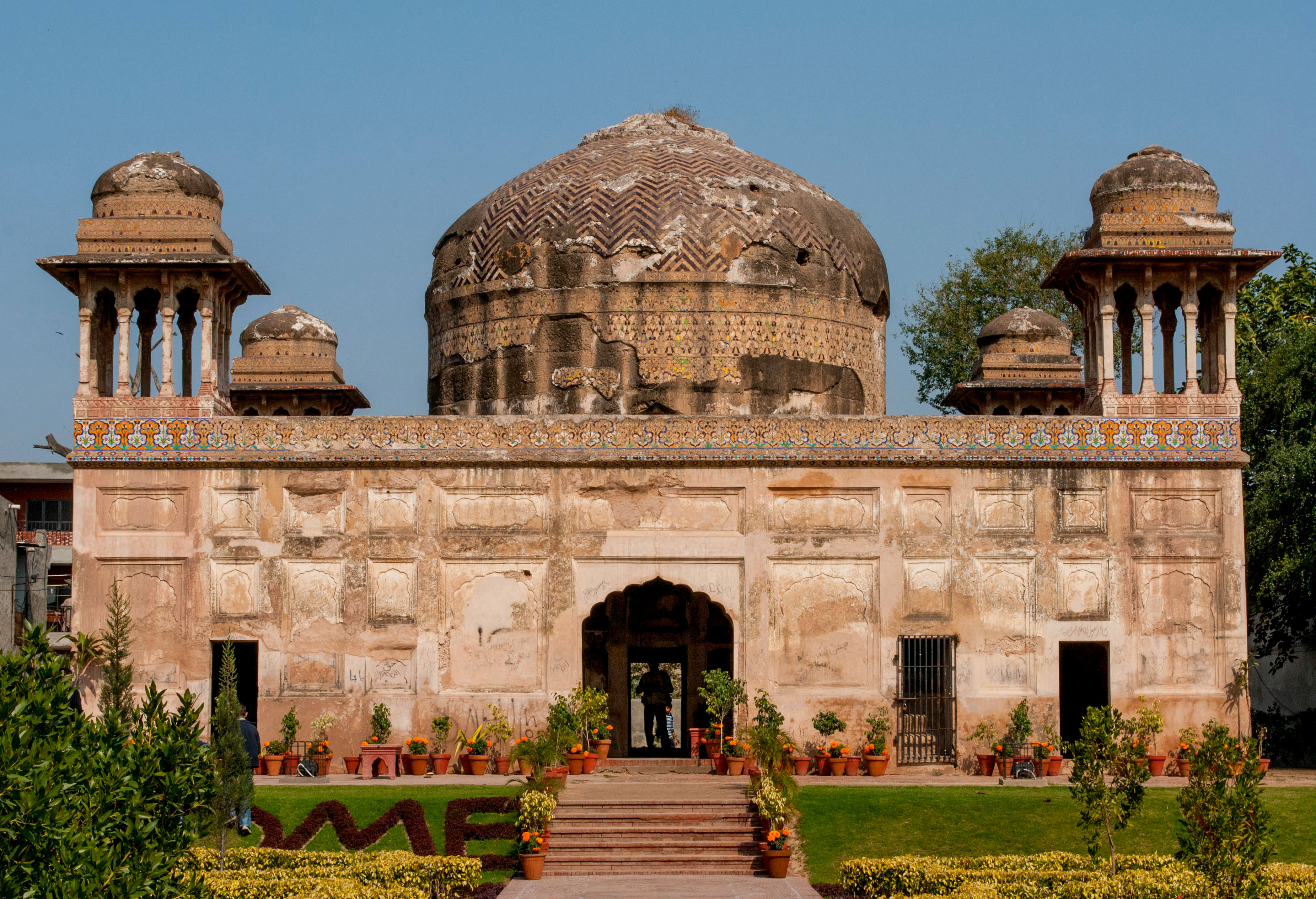 Gulabi Bagh Gateway This is a photo of a monument in Pakistan identified as the PB-58